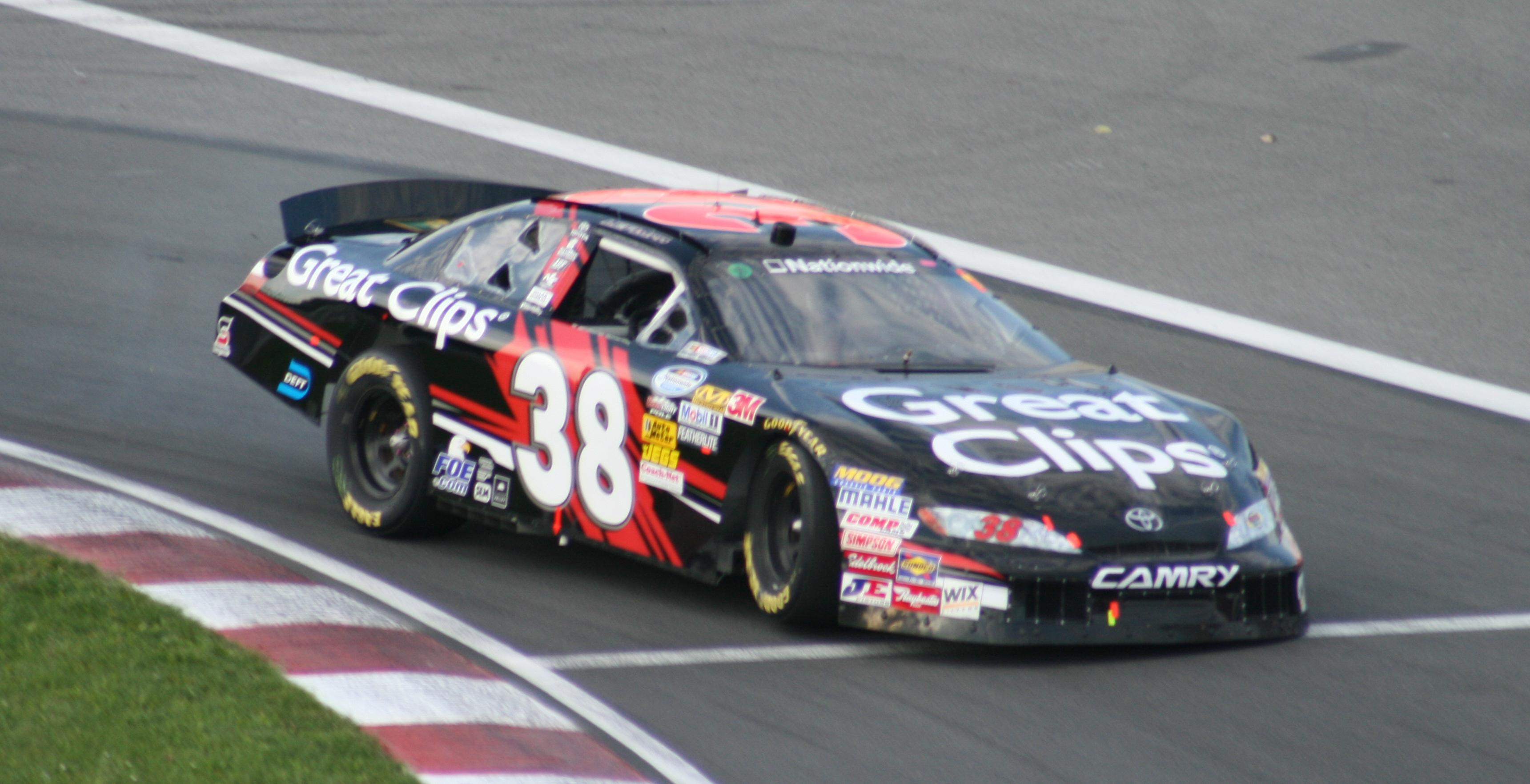 Jason Leffler in the qualification for the 2010 NAPA Auto Parts 200 at the Circuit Gilles Villeneuve in Montreal.